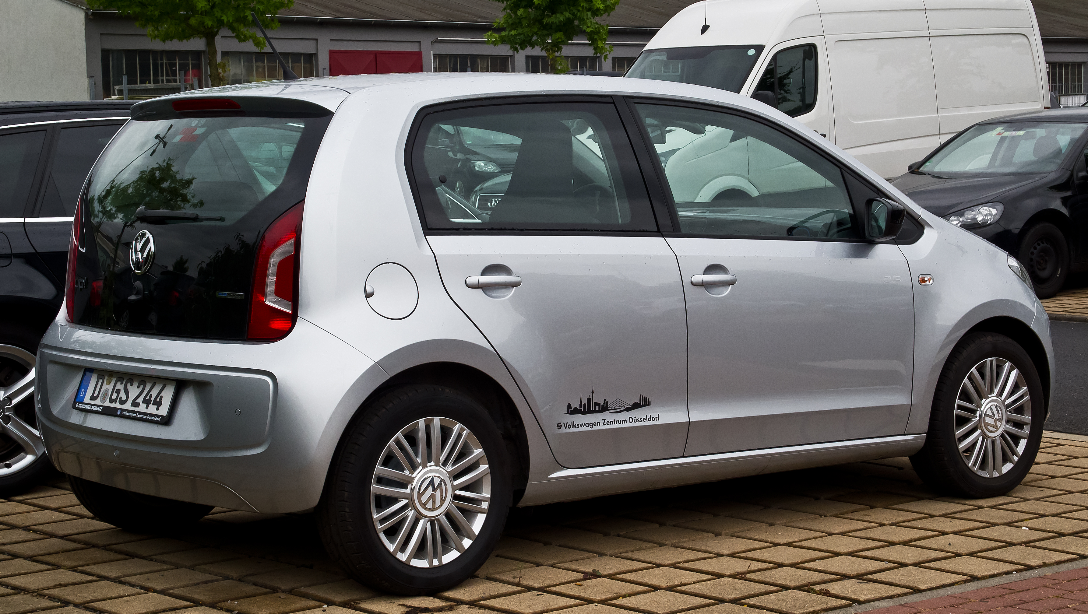 VW cup up! 1.0 BlueMotion Technology